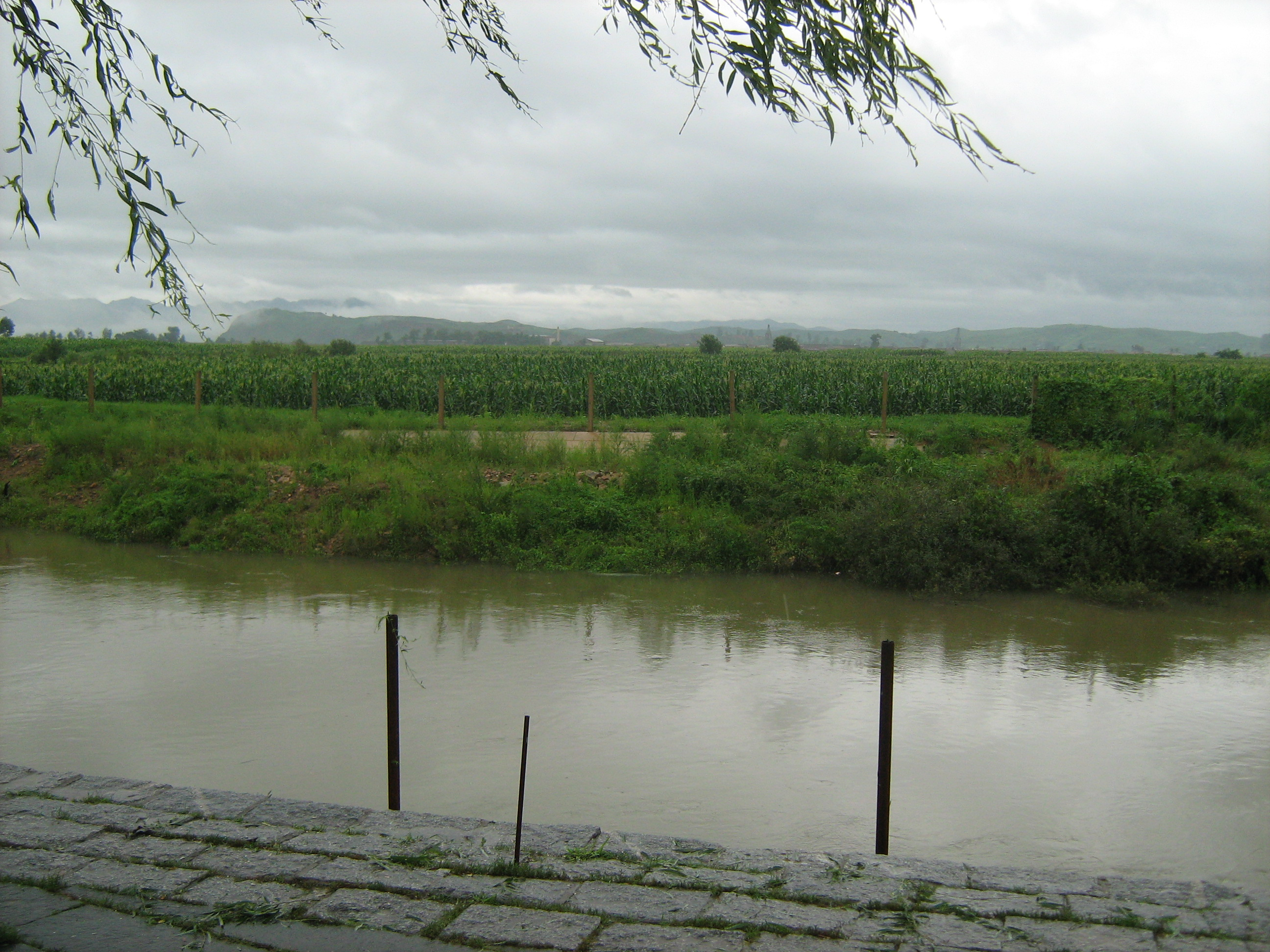 This shows the border with North Korea at Dandong in China. The stream, part of the Yalu River delta, forms the border here. The field on the other side is in North Korea.